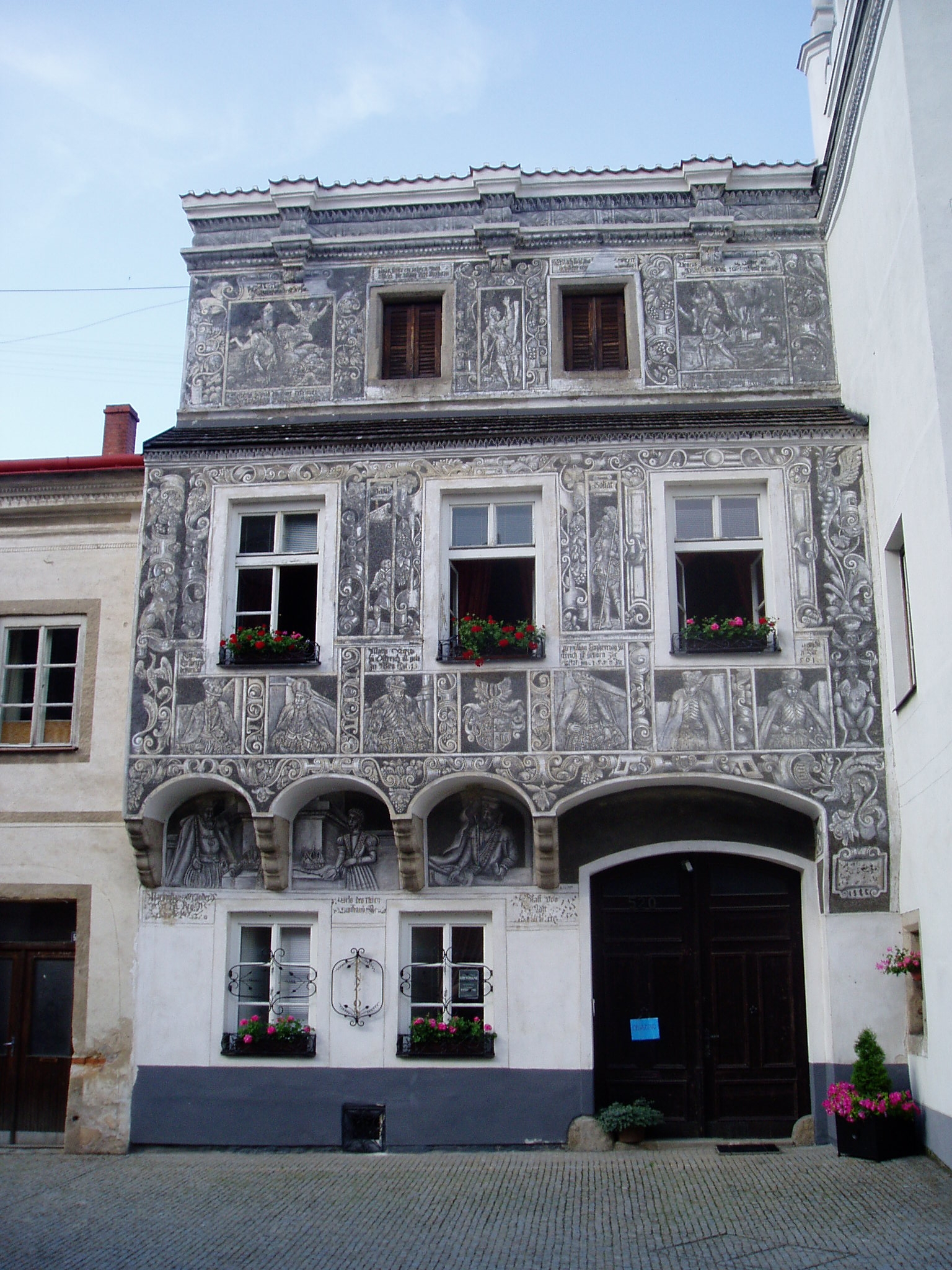 A Renaissance house in Slavonice, Czech Republic.